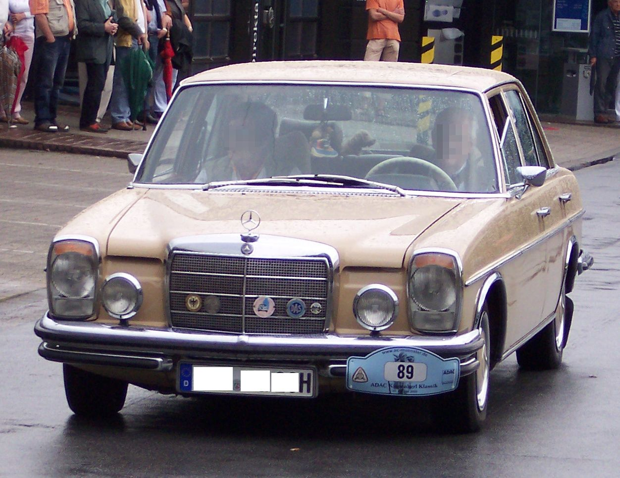 Mercedes-Benz 220D with W114 bumpers.